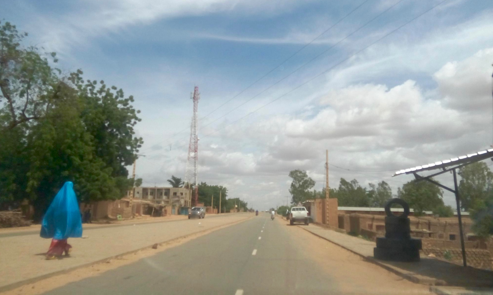 Main road in Tondibiah village, Niamey.